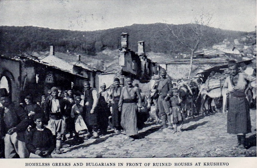 Homeless Greek and Bulgarian inhabitants of Krushevo in front of the ruins of the town.